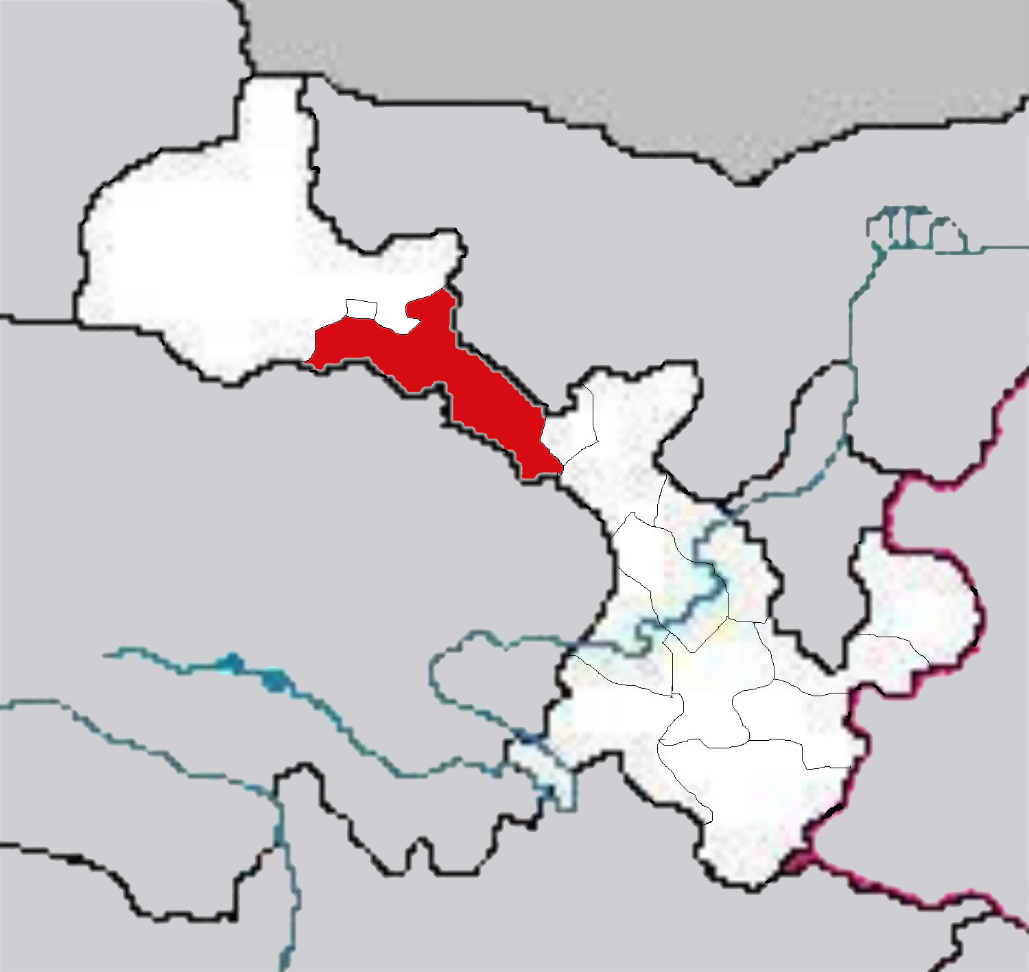 maps of Gansu Province of China